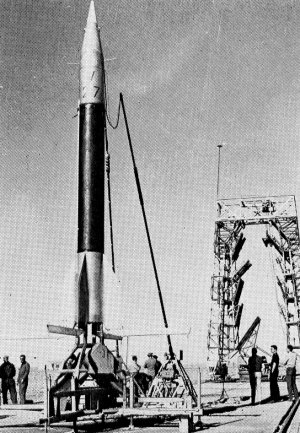 Véronique-AGI French sounding rocket, serial number 27, circa 1961.